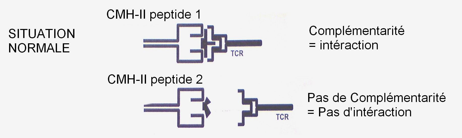 Activation des lymphocytes T par un antigène conventionnel